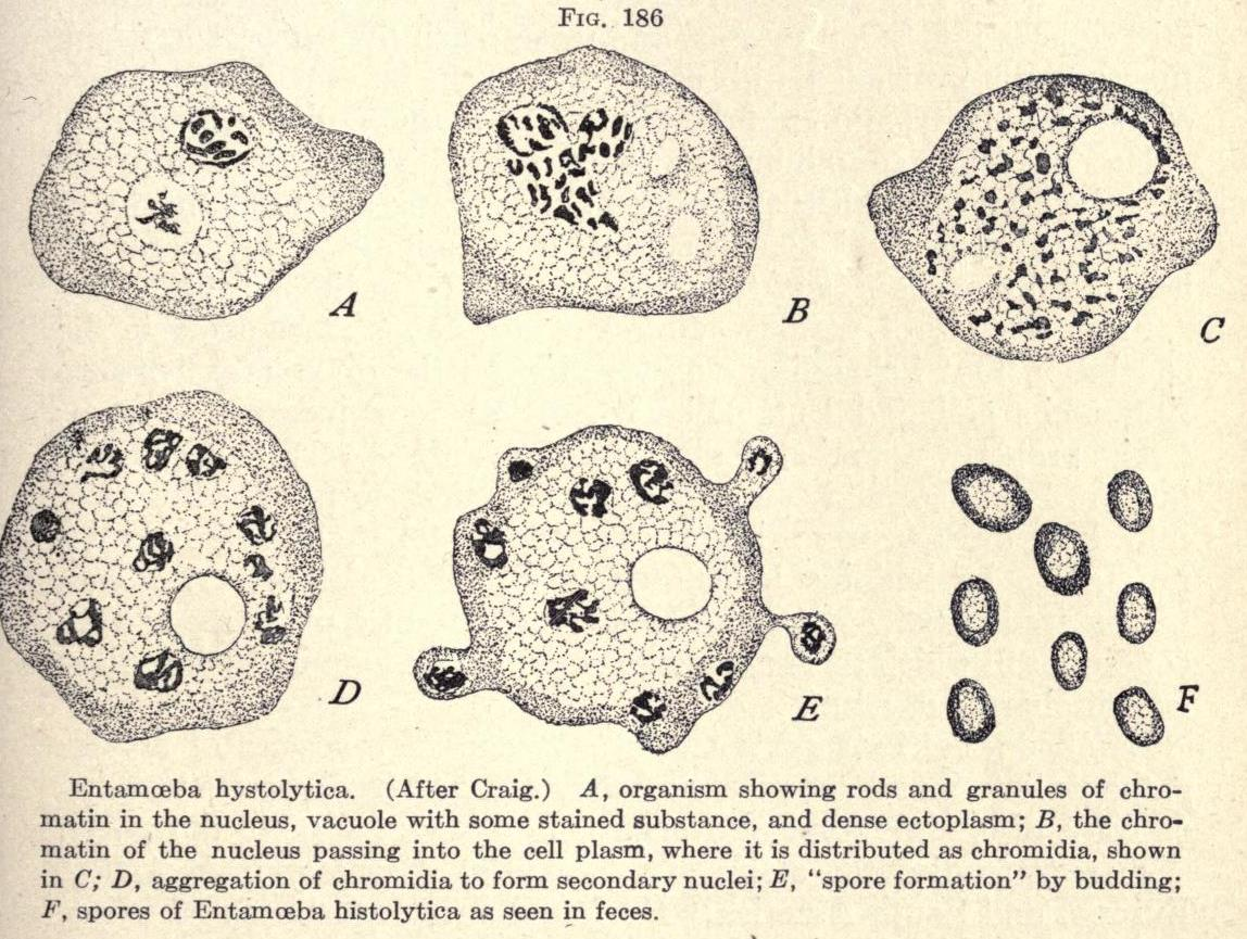 Entamoeba hystolytica: illustration from the Textbook on Disease-Producing Microorganisms